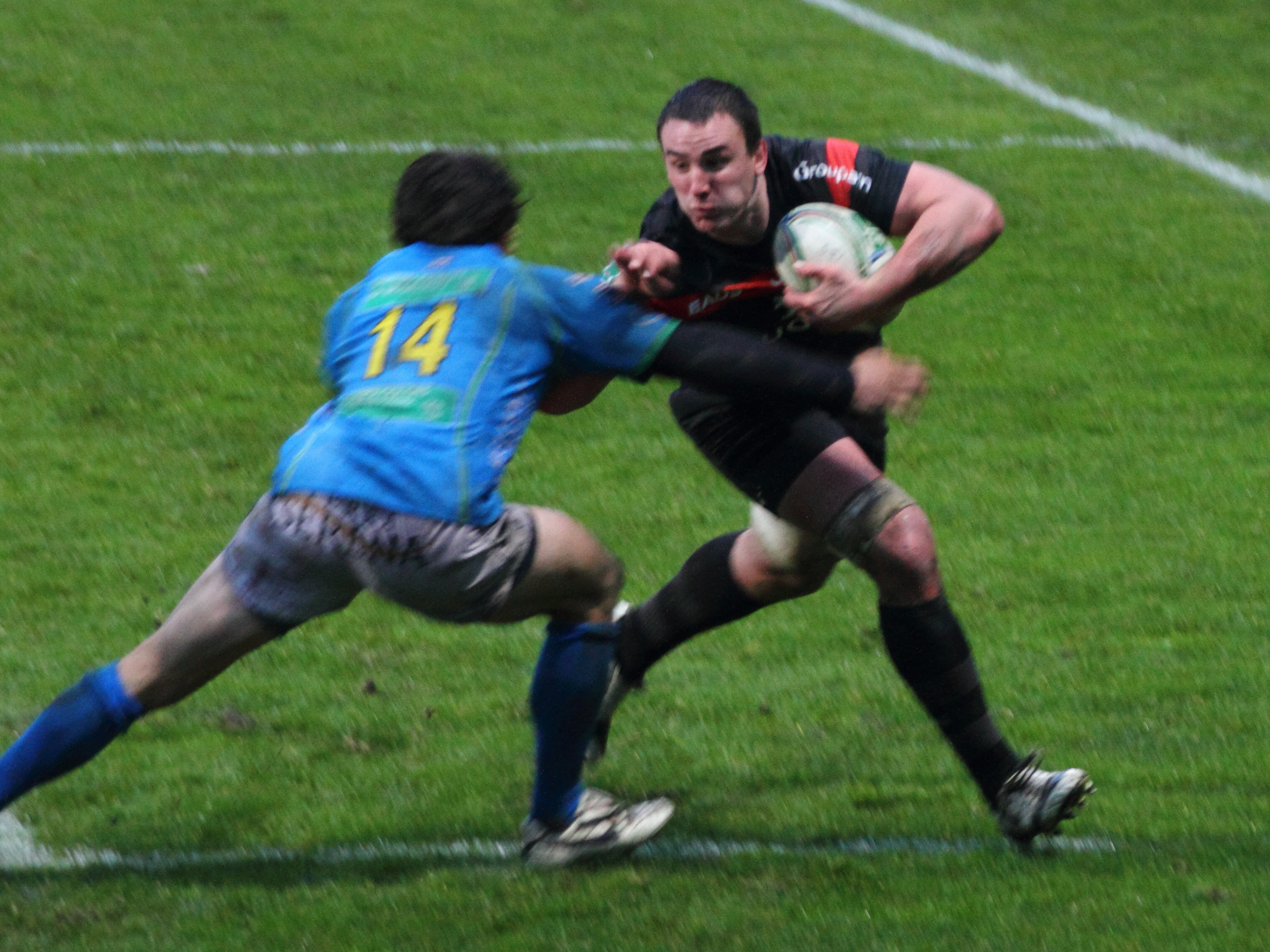 Heineken Cup — 13 January 2013, Stade Ernest-Wallon. Match between: Stade toulousain — Benetton Rugby Treviso